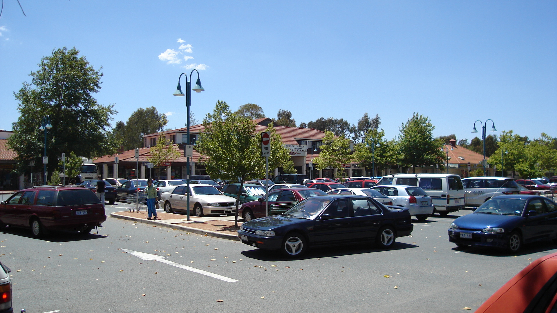 Local shops in Charnwood, Australian Capital Territory. Taken by Joel Wigley on 20th January 2007.